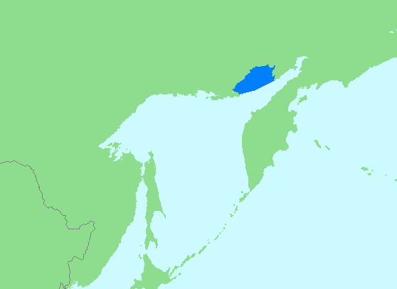 NOTE: Incorrect file title — is Gizjiga Bay, not Penzhinskaya/Penzhin Bay. Location map of Gizjiga Bay — in the northeastern Sea of Okhotsk. A bay of Magadan Oblast, northwest of Kamchatka Peninsula (Kamchatka Krai). Gizjiga Bay is an upper left arm of Shelikhov Bay.